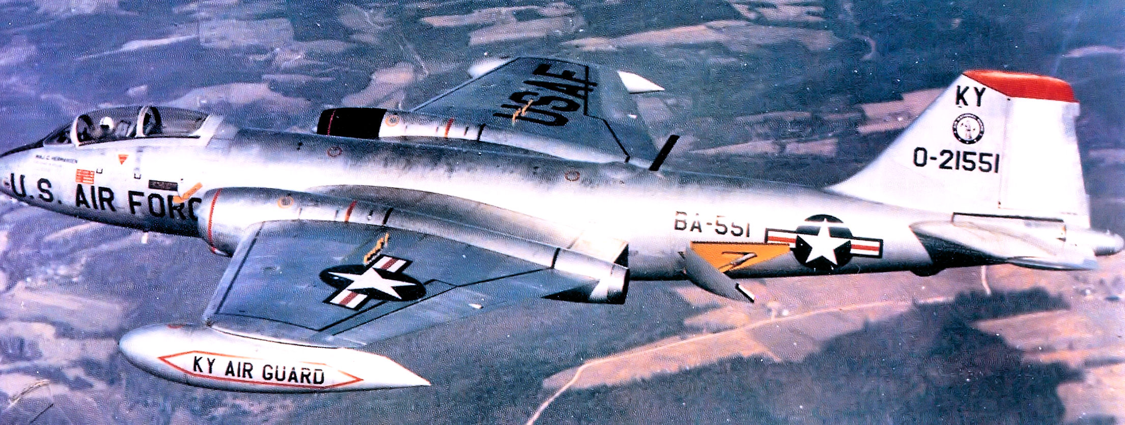 165th Tactical Reconnaissance Squadron - Martin B-57B-MA 52-1551. Originally a B-57B, converted to RB-57B (As shown). Served in Vietnam, later converted to EB-57B. To MASDC as BM0030 Nov 21, 1969. Now at NASM, Washington DC in Dulles storage.